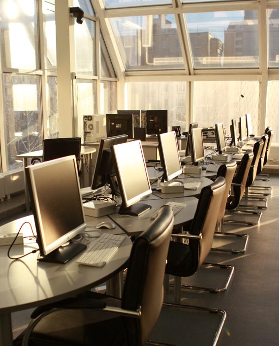 Technological college №14 - Computer park